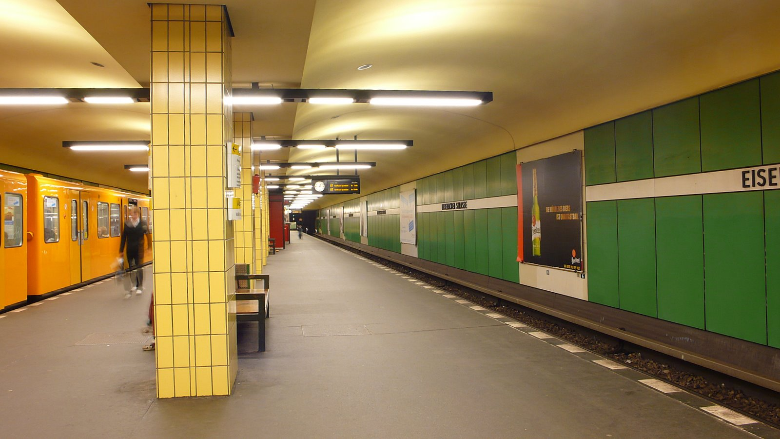 Subway Berlin Eisenacher Str